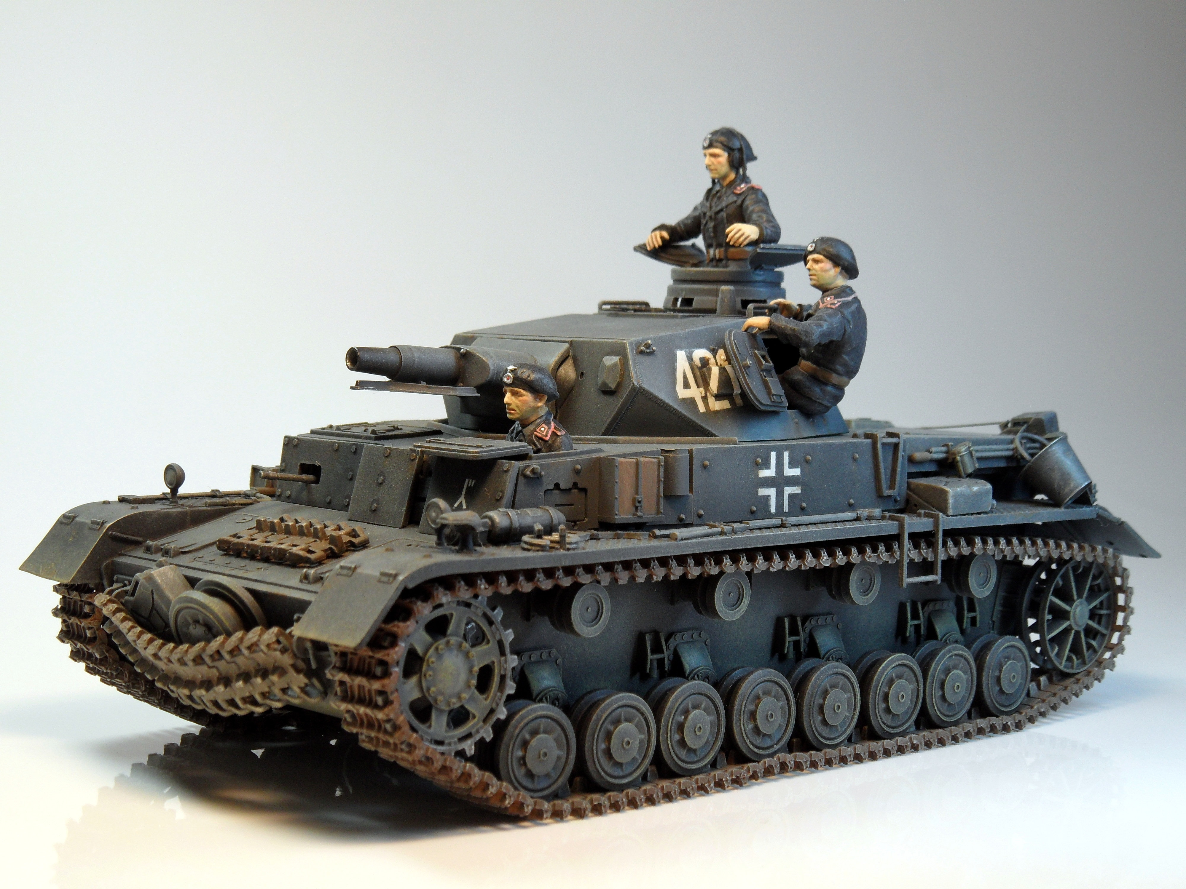 More pictures of My Toy Museum at Flickr. Most of those toys do still have copyrights so i can't publish them here! 70's Memories Project - Pzkpfw IV Ausf D - Photo Retaken Left Side